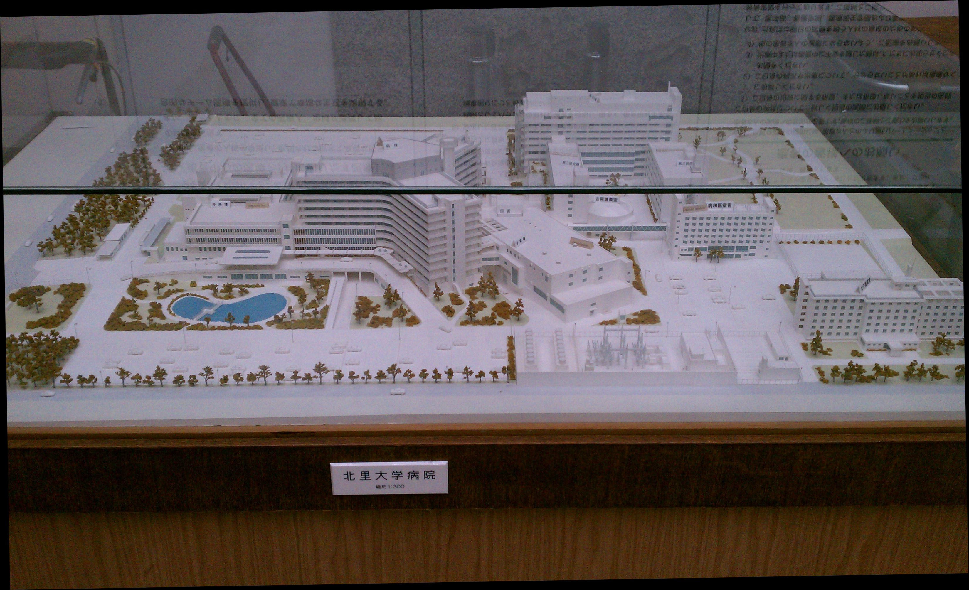 Kitasato University Hospital1/300model